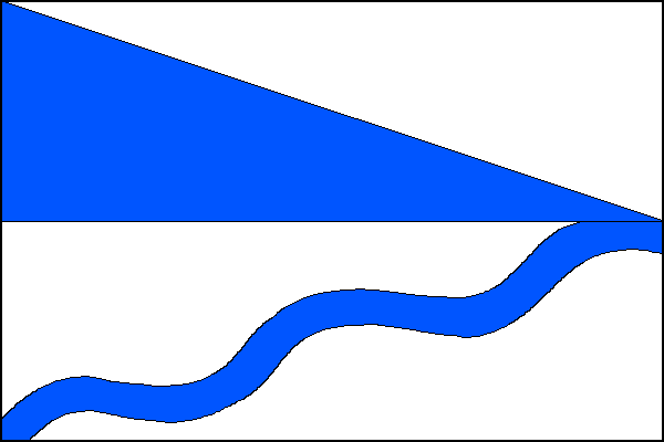 Municipal flag of Družec village, Kladno District, Czech Republic.